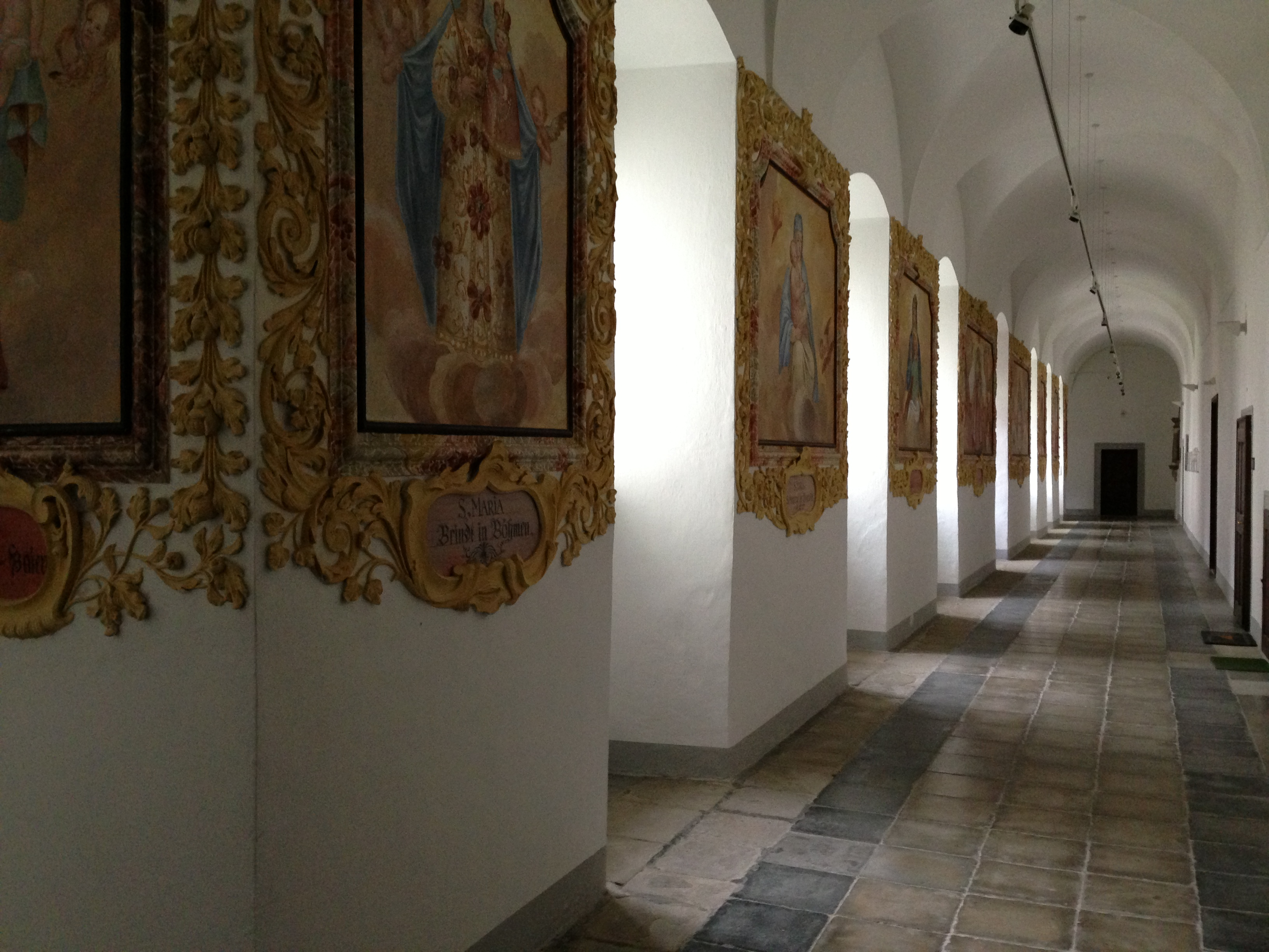 cloistered courtyard at Schlierbach Abbey